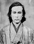 At the convention of the League for Establishing a National Assembly held in November 1880 (Meiji 13), each of the participating organizations was asked to develop a proposal for a constitution. The Risshisha, which had a leading role in the League, also initiated the drafting of a draft constitution. The "Toyo Dai-Nippon National Constitution Proposal" was drawn up by UEKI Emori, a member of Risshisha's constitutional drafting committee. While positioning the Emperor as the head of the military and diplomacy, it also prized regional autonomy, envisioning a nation modeled after a federal system such as that of the United States or Switzerland. It also envisioned the development of a governing system centered on a national assembly, ascribing the power of legislation to the entire populace. It also went into painstaking detail about people's right to freedom, recognizing their right to protest and revolt as a means to guarantee that freedom. Given those characteristics, UEKI's proposed constitution demonstrates a liberal and democratic nature.